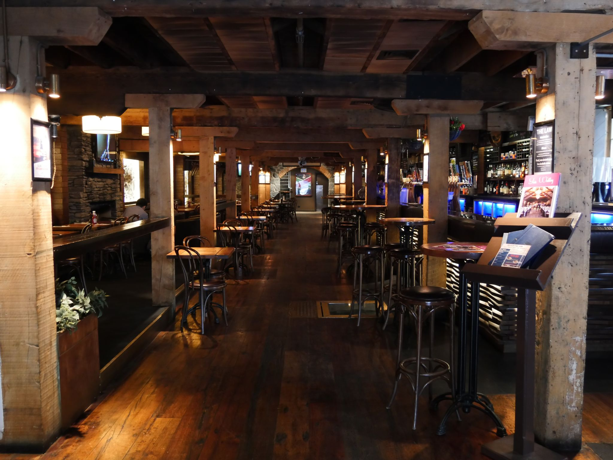 Bluestone Store Building (inside), 9-11 Durham Lane, Auckland, New Zealand, build 1861